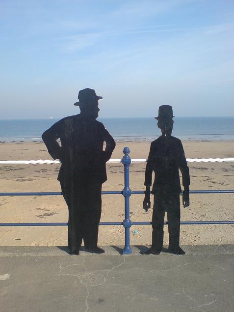 Silhouettes of Stan Laurel and Oliver Hardy in Redcar, England. Taken by cls14 in October 2007.